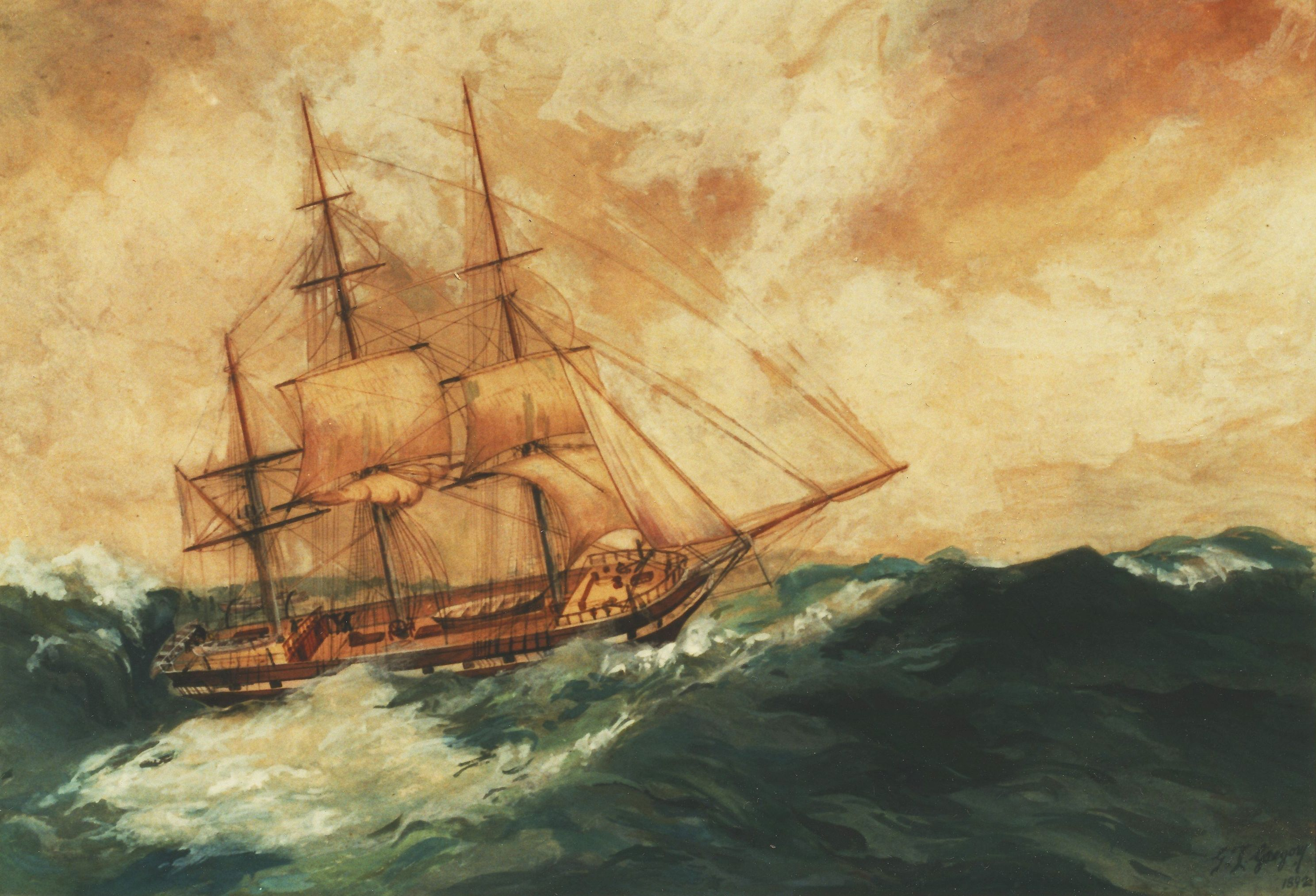 Painting of the barque Lady Blackwood, by English artist George Gregory, dated 1892. The work commemorates a voyage made in 1829. The ship's master at that time was Capt. John Dibbs. The Lady Blackwood was built in Calcutta in 1821 for the Australian colonial traders Campbell and Co. and is most likely named after the wife of Sir Henry Blackwood who was Commander-in-Chief of the East Indies 1819-1822. The Lady Blackwood had several subsequent masters, and was eventually sold to a San Francisco buyer in March 1847. It was wrecked off the coast of British Columbia about 1872. The ship’s bell is in a Church in Comox BC.